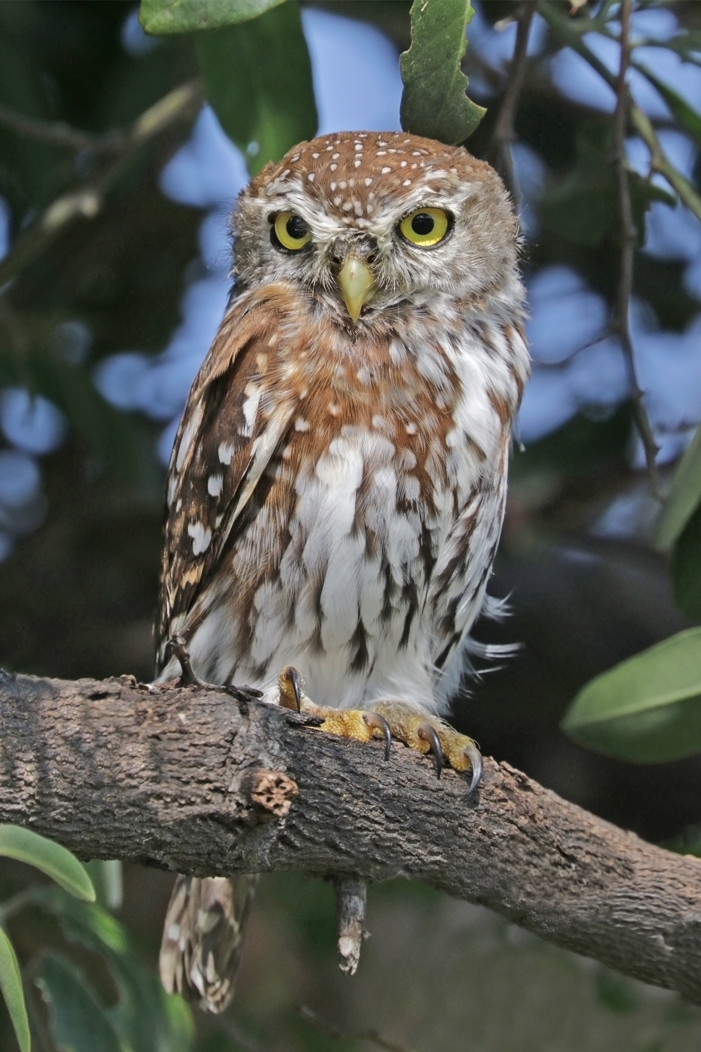 Pearl-spotted owlet (Glaucidium perlatum diurnum), Chobe National Park, Botswana